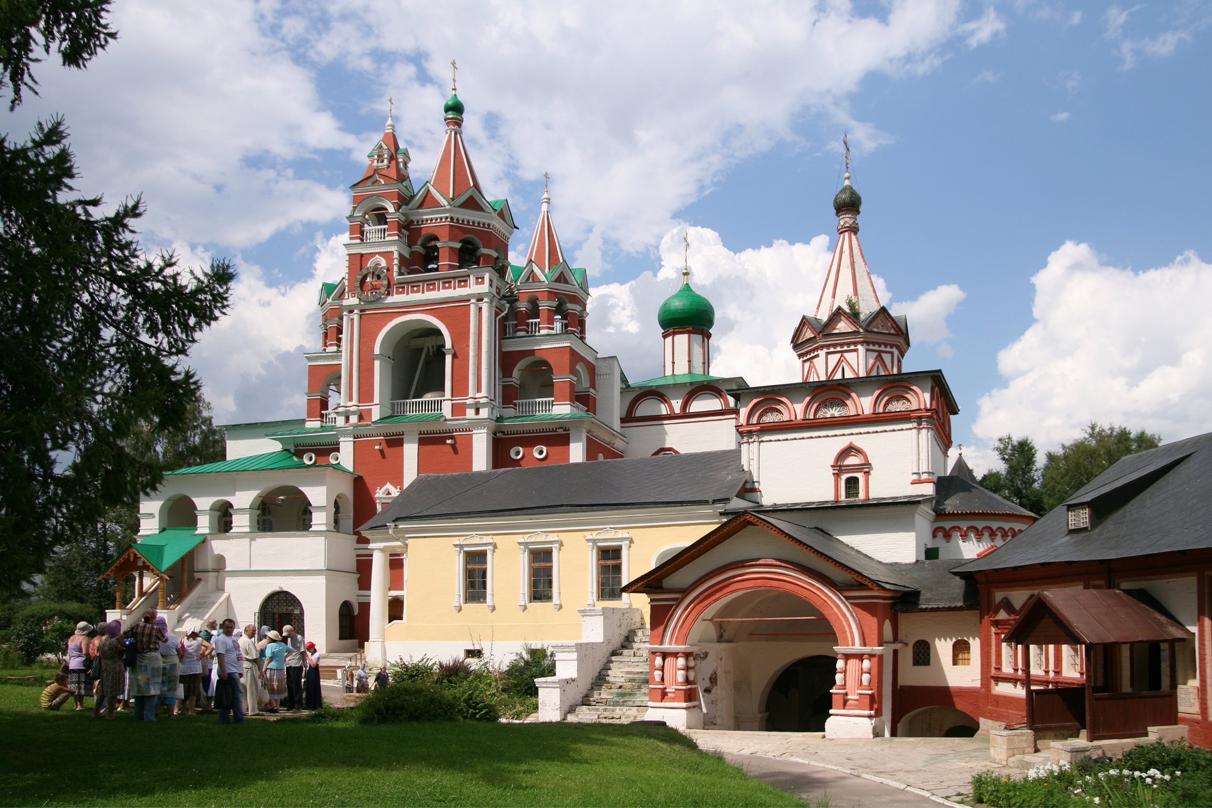 From left to right: Bell Tower (1654), church of the Transfiguration (1693) and Holy Trinity gate church (1652) in Savvino-Storozhevsky Monastery